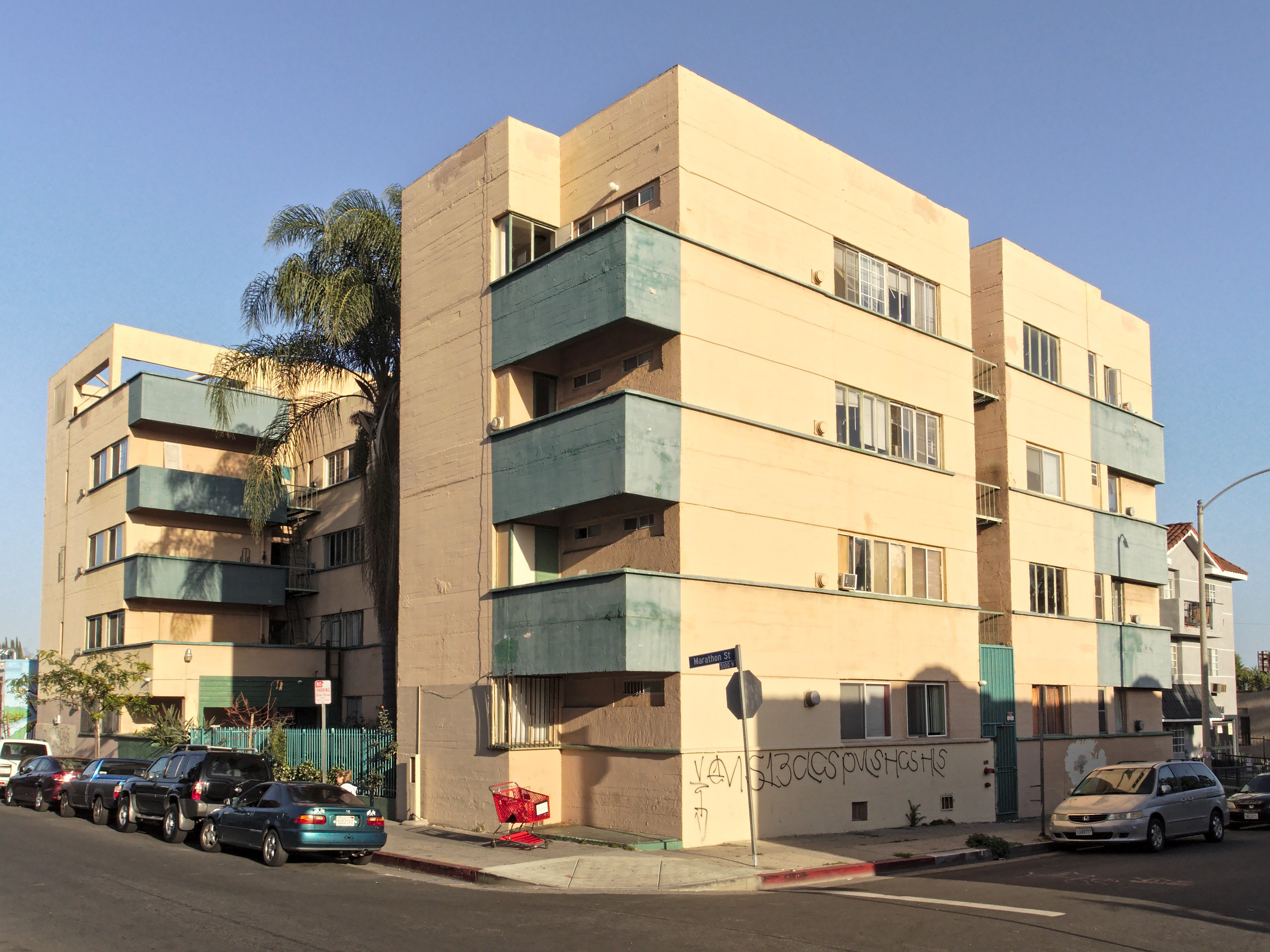 The Marathon Apartments, once known as the Jardinette Apartments, viewed from the northwest.